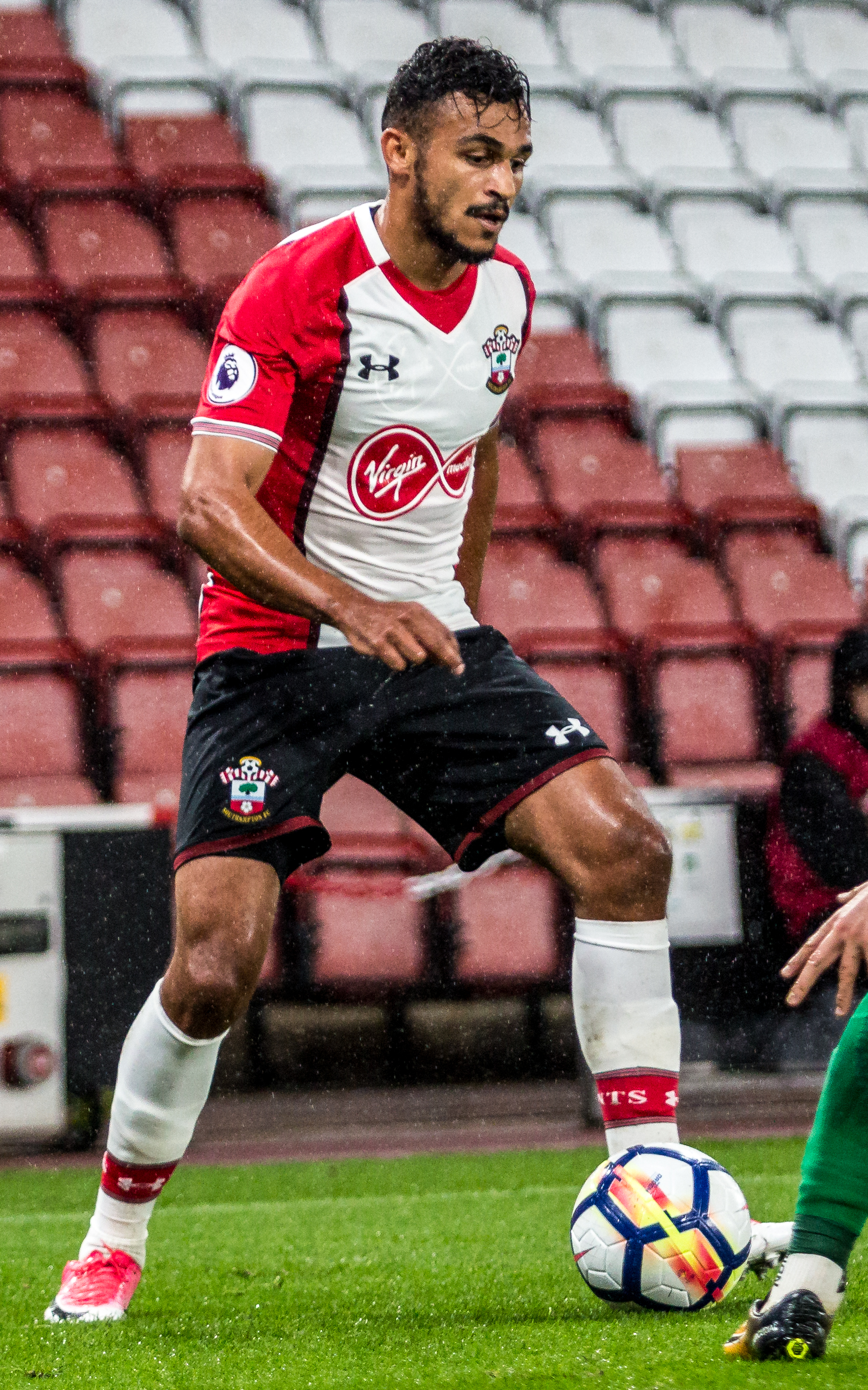 Pre-season friendly Wednesday 2 August 2017 Image by Lewis Commons